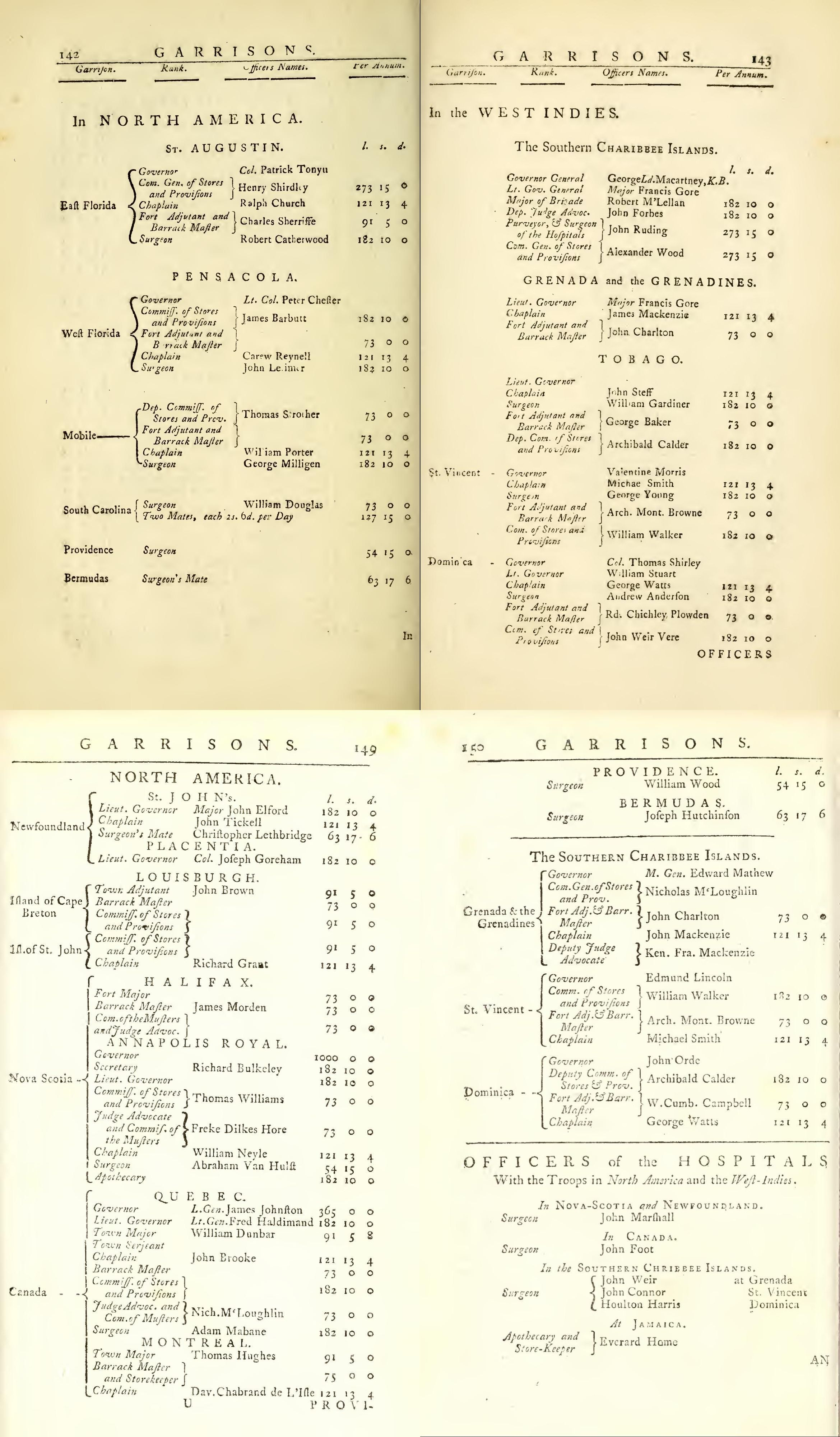 Military Governors, Lieutenant-Governors and Staff Officers in the garrisons of British North America and West Indies in 1778 and 1784, as listed in the Army List for each of the respective years. Pages extracted from: "A LIST OF THE GENERAL and FIELD OFFICERS, As they rank in the Army; of THE OFFICERS in the several REGIMENTS OF HORSE, DRAGOONS, and FOOT, ON TH E BRITISH and IRISH ESTABLISHMENTS. (To which is now added An Alphabetical Index) The Royal Regiment of Artillery, and Corps of Engineers, the Irish Artillery and Engineers, And the MARINES on FULL and HALF PAY. WITH The Dates of their Commissions, as they rank in each CORPS and in the ARMY. The Governors, Lieutenant Governors, &c. of his MAJESTY's Garrisons at Home and Abroad, with their Allowances. All the Officers on Half Pay : And A SUCCESSION of COLONELS, With the Uniforms to each Regiment, from the new Order for Clothing, &c. MCCLXXVIII", By Permission of the Right Honourable The Secretary at War. Printed for J. Millan, opposite the Admiralty Office, Whitehall, London. "A LIST OF THE OFFICERS of the ARMY, (WITH AN ALPHABETICAL INDEX;) OF THE OFFICERS of the ROYAL ARTILLERY, THE ENGINEERS, the MARINE FORCES, AND OF THE OFFICERS on HALF-PAY; AND A SUCCESSION of COLONELS. THE THIRTY-SECOND EDITION." War-Office, March 31, 1784